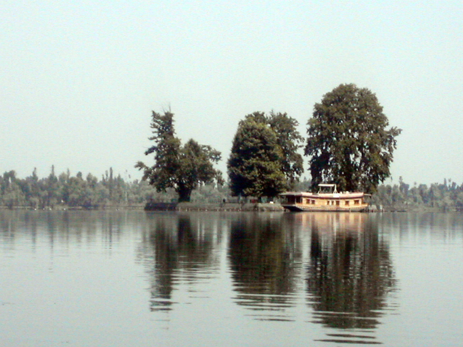 Char Chinar in Dal Lake.